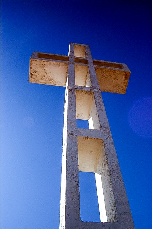 The Cross, the center of much controversy, sits atop Mount Soledad (Orig: Picture-011)